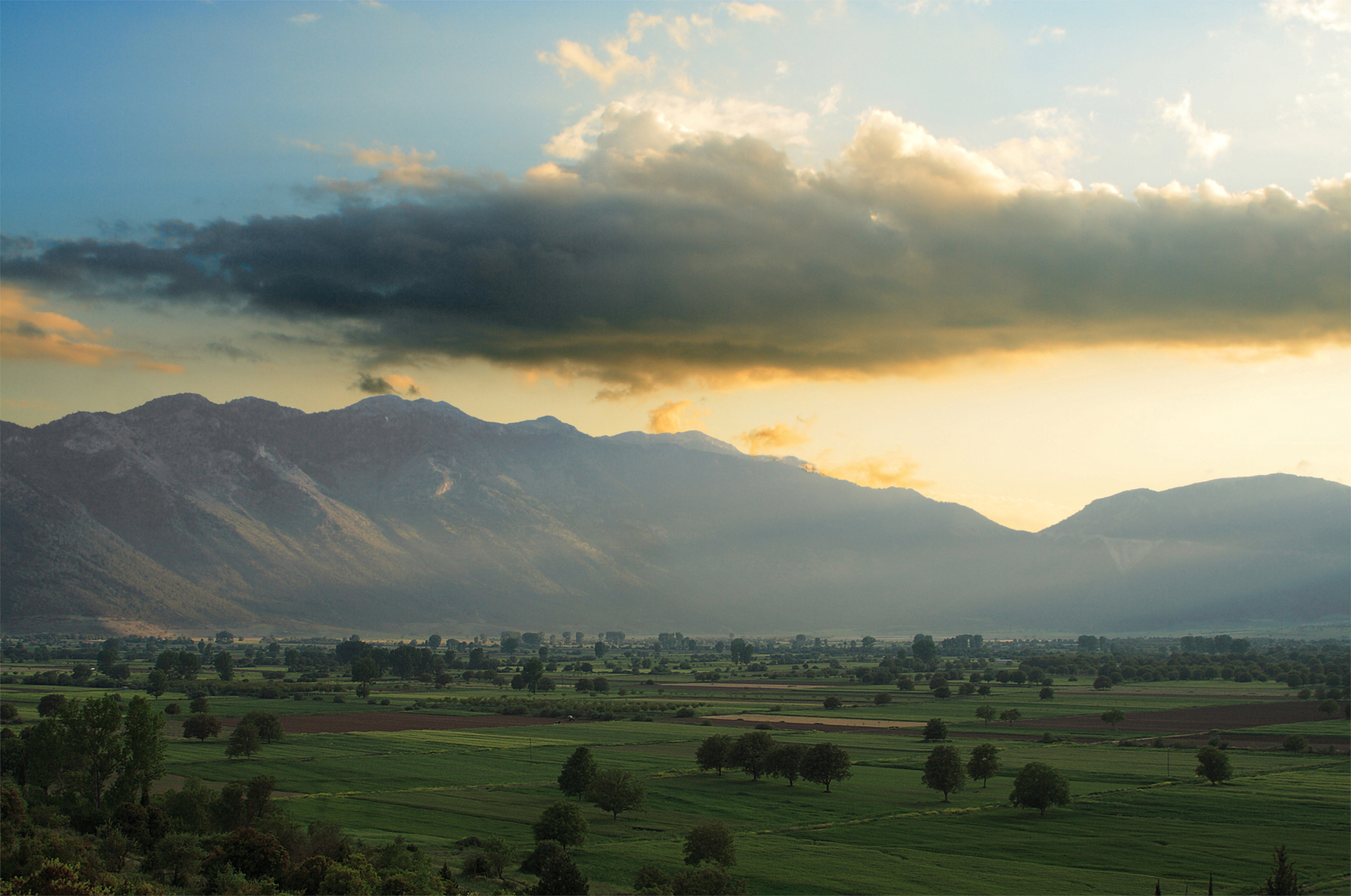 Polje Fenoes, a plateau in 720 m, Prefecture Corinthia. The plateau has no natural surface water outlet, which is a relatively frequent geological phenomenon in Karstbasins (island Peloponnese in Greece). Two small streams, Olvios and Doxa (Όλβιος, Δόξας) empty into the polje. When precipitation of winters is exceptionally rich, the polje is partly flooded, a temporary lake may result even nowadays, when the capacity of the three ponors is insufficient or the ponors, or their subsurface waterways, are blocked. Up to the beginning of the twenties century the polje rather was a lake than a ground for agriculture.